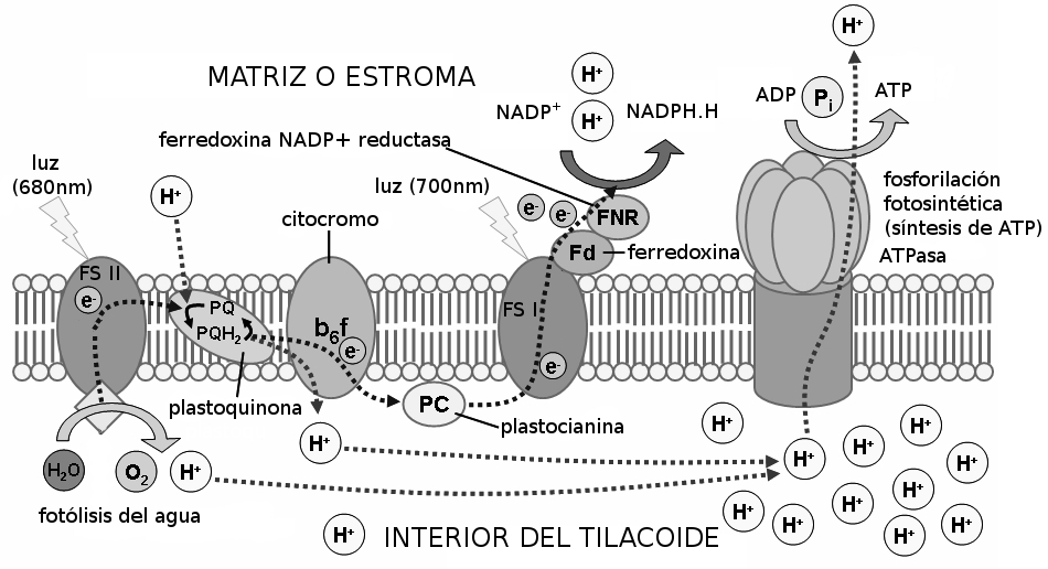 Light-dependent reactions of photosynthesis at the thylakoid membrane. (Created using Powerpoint, based on: Taiz and Zeiger, Plant Physiology, 4th edition, ISBN 0-87893-856-7)